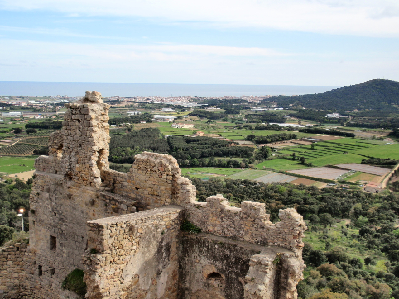 View from the Castle of Palafolls towards Malgrat de Mar